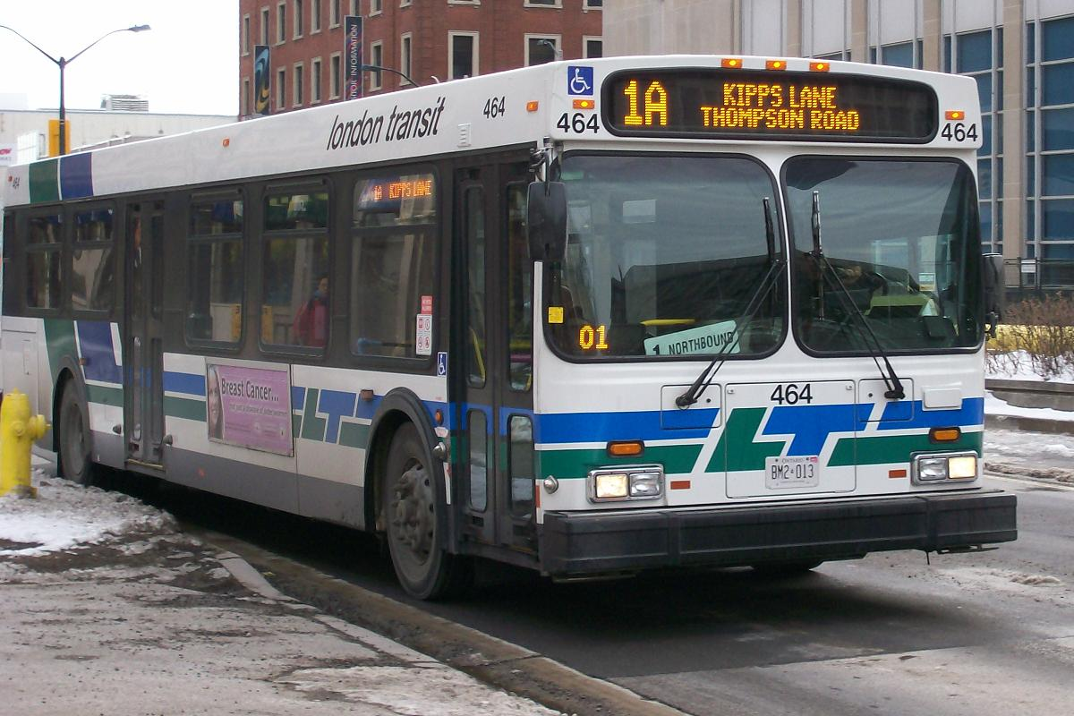 New Flyer D40LF bus in service with London Transit